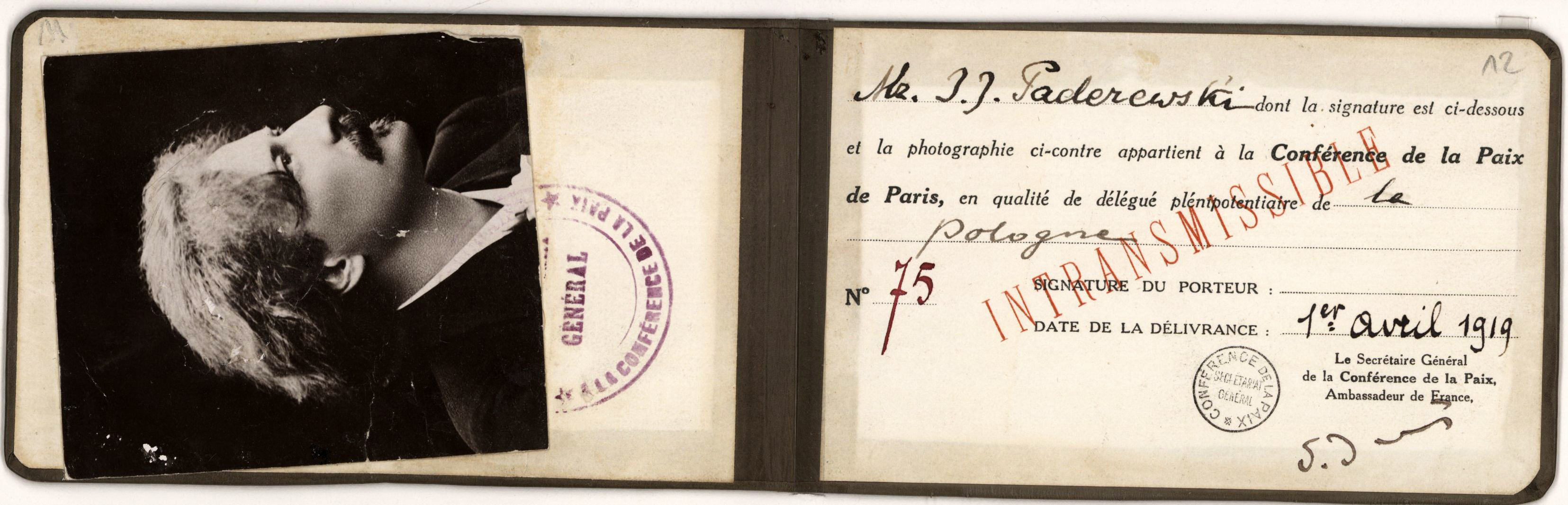 ID-Card of Ignacy Jan Paderewski , Prime Minister and foreign minister of Poland during Paris Peace Conference 1919